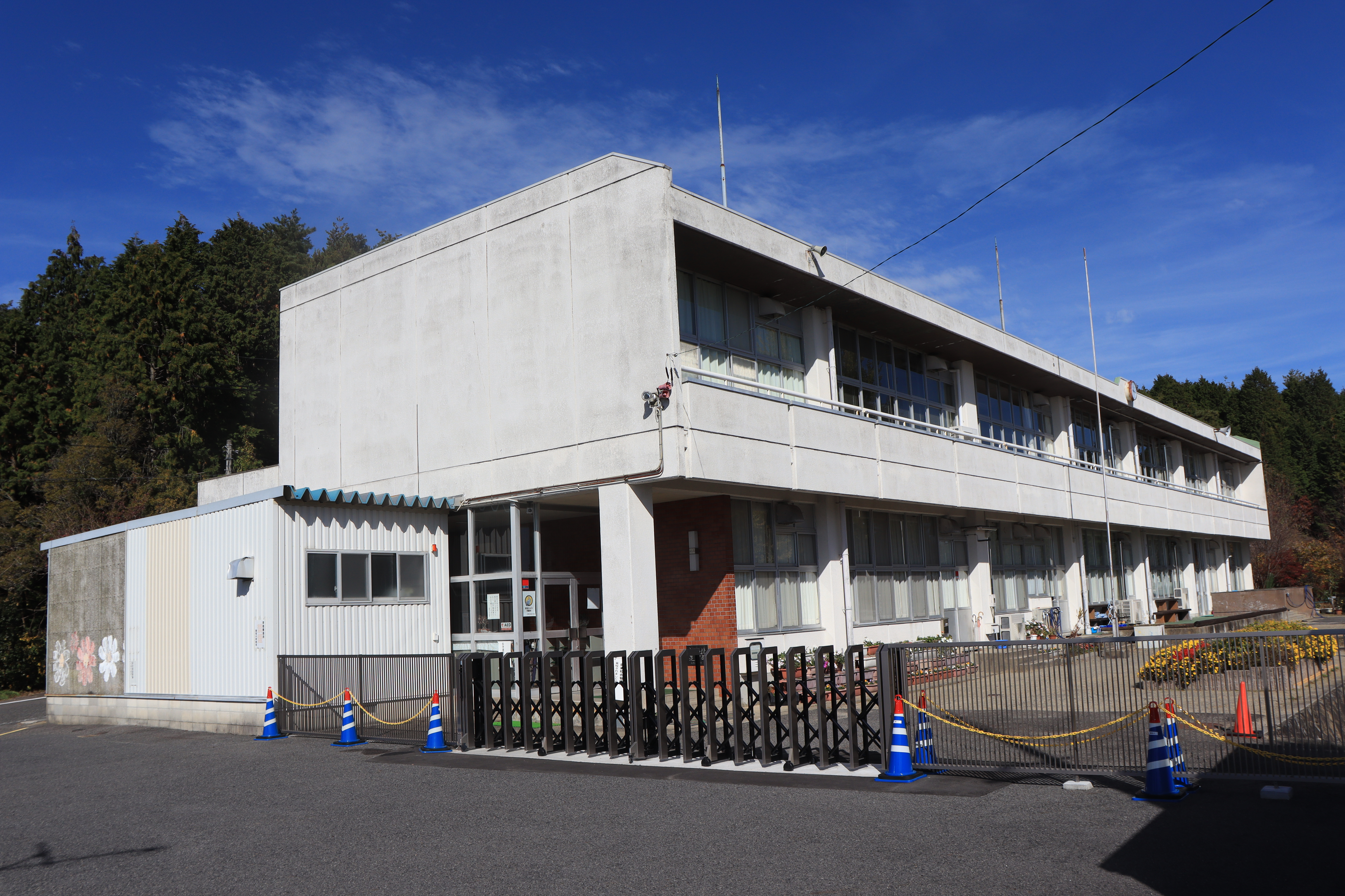 Yaotsu Town Shiomi Elementary school in Yaotsu, Gifu Prefecture, Japan.